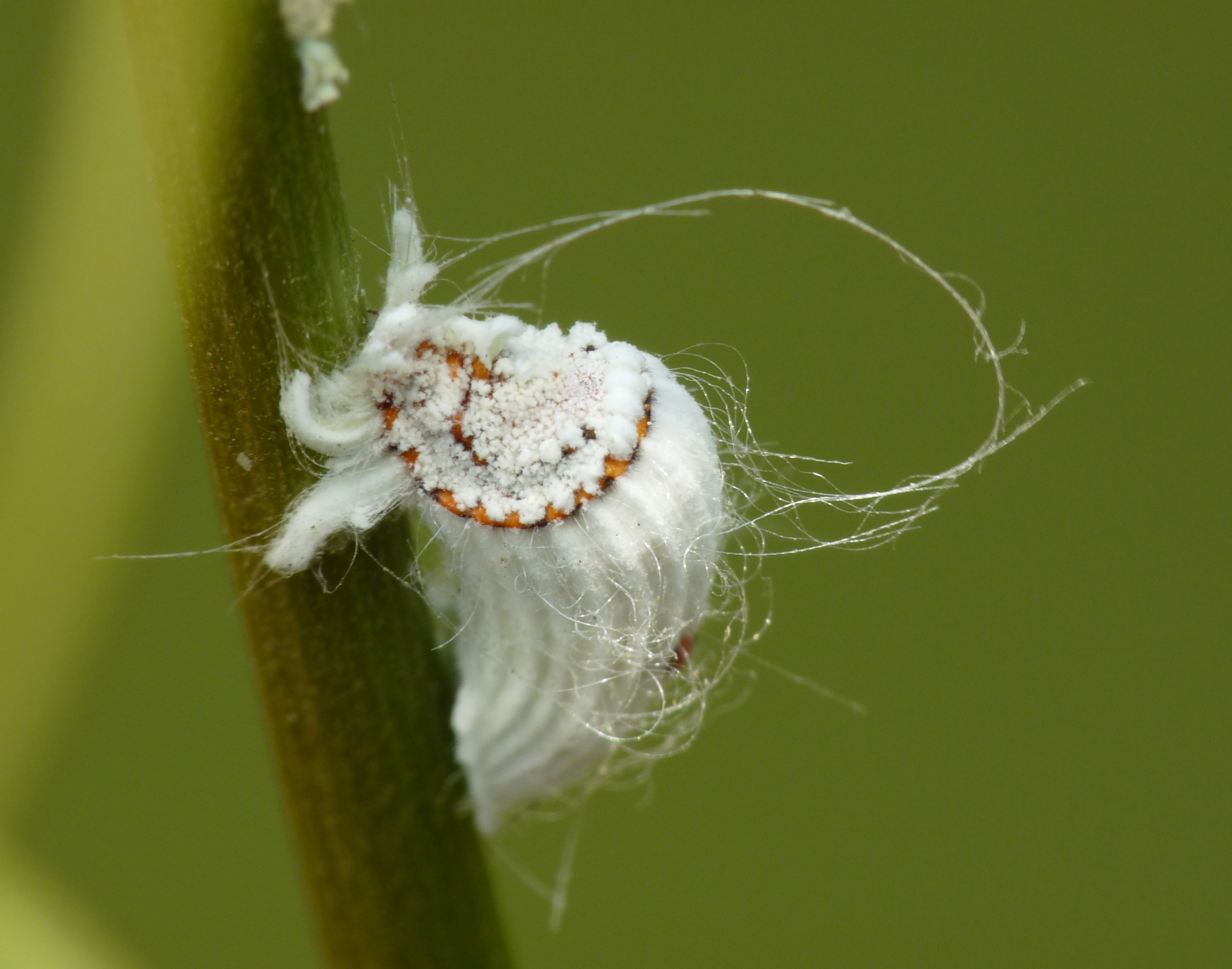 Icerya purchasi, near Livorno, Tuscany, Italy